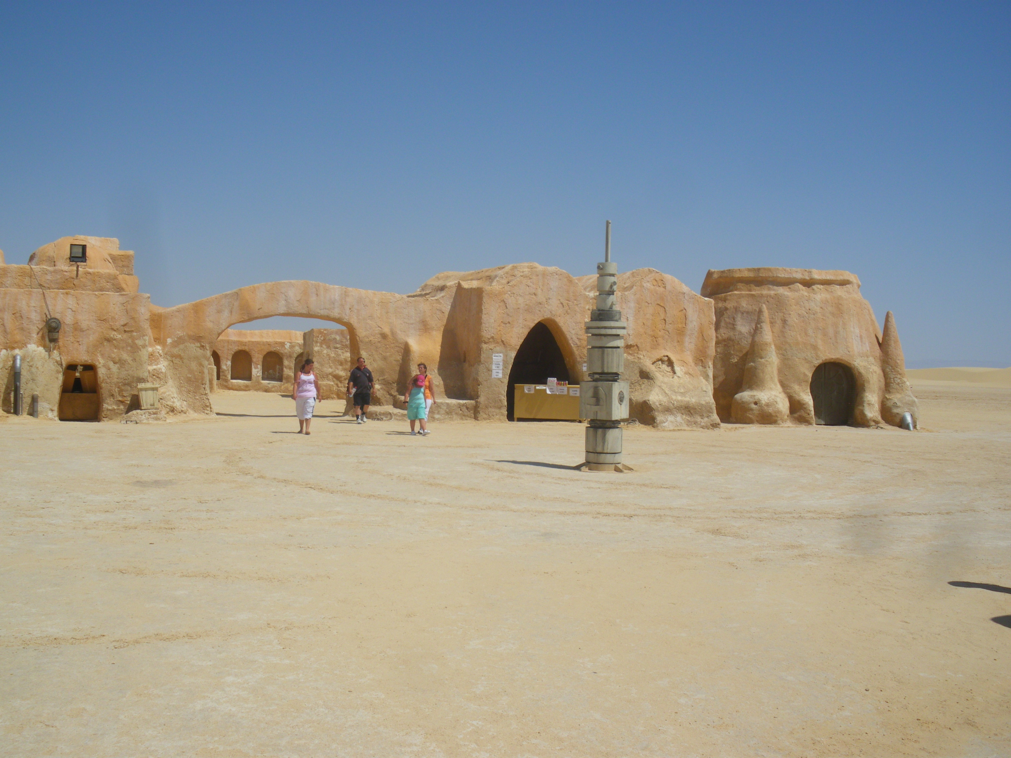 Star Wars Episode I: The Phantom Menace village nearby Nafta, Tunisia in Tunisia